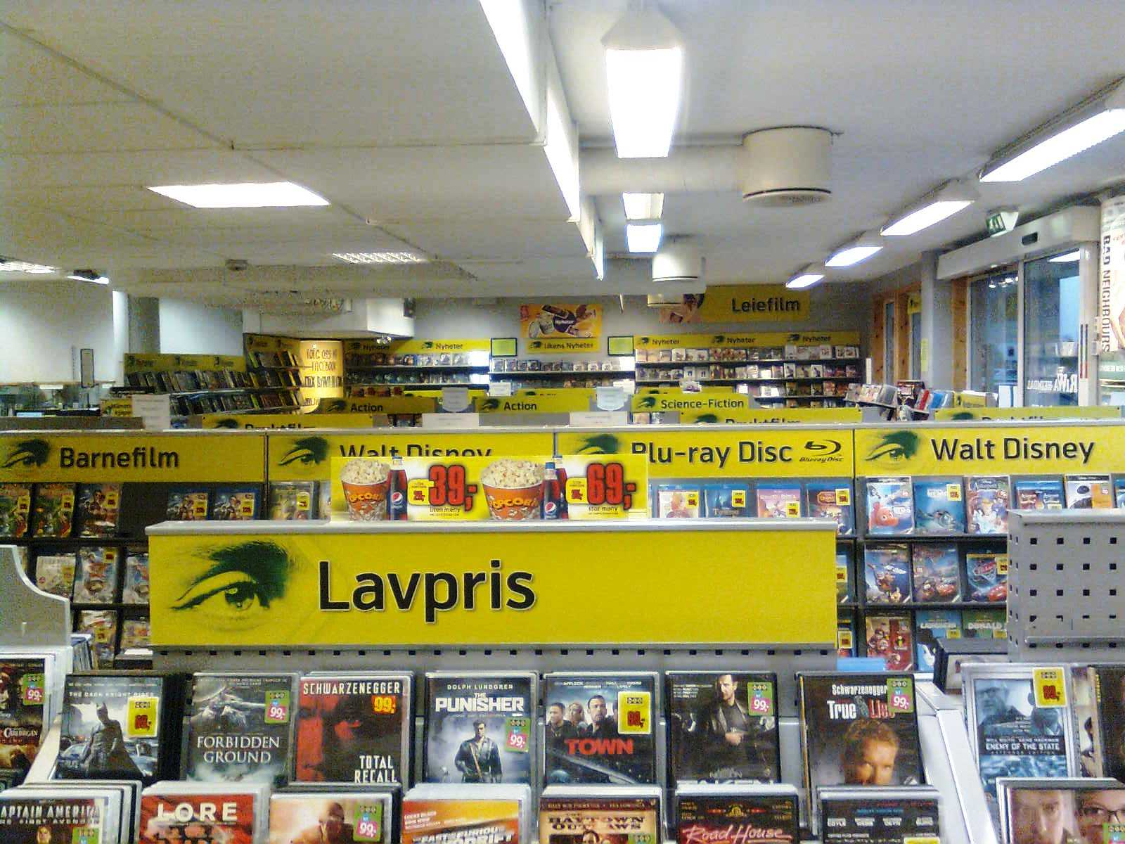 Riwa video in Heimdal, Trondheim. It was the last video rental store in Trondheim. It closed in 2016.